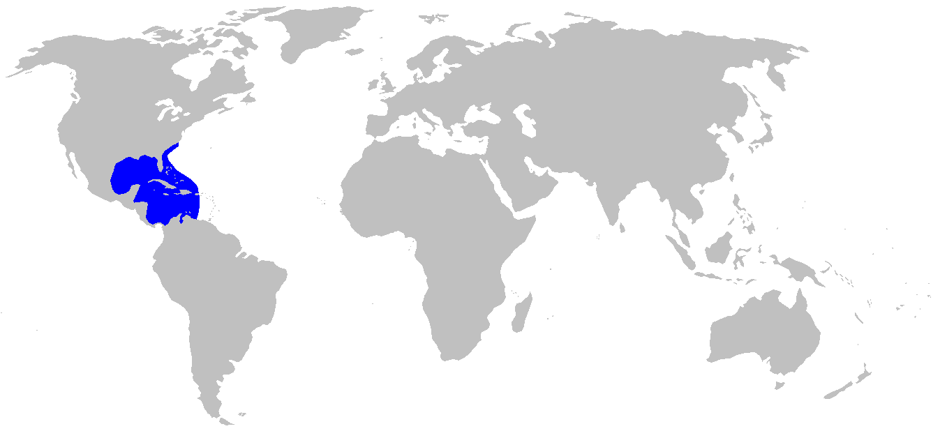 Distribution map for Urobatis jamaicensis, based on [1]